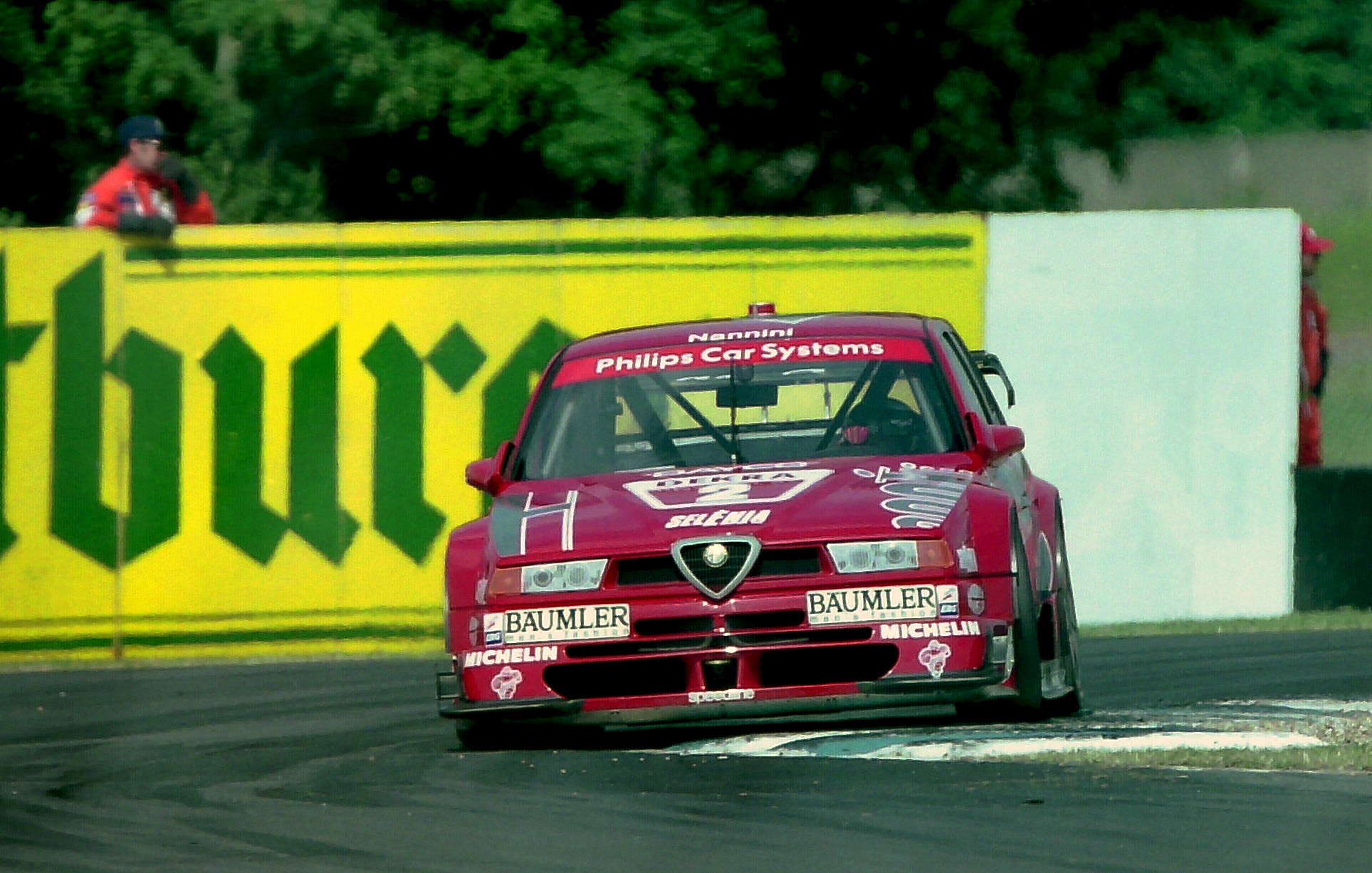 German Touring Car Championship - Donington Park July 17 1994